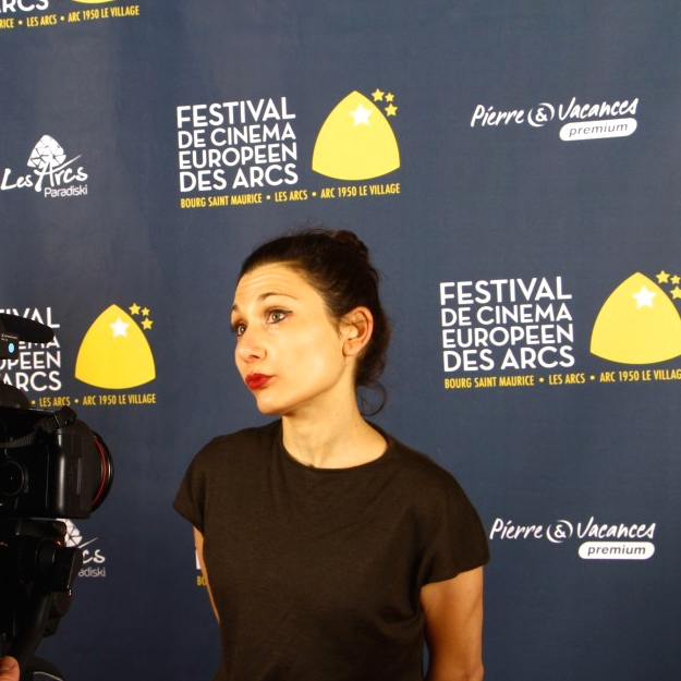 Chiara D'Anna, Les Arcs Film Festival